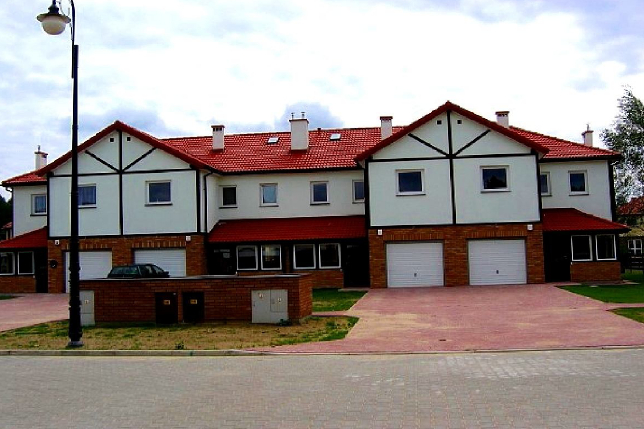 Terraced Houses in Budki Kozerkowski, Czarny Las, Grodzisk Mazowiecki, Poland.